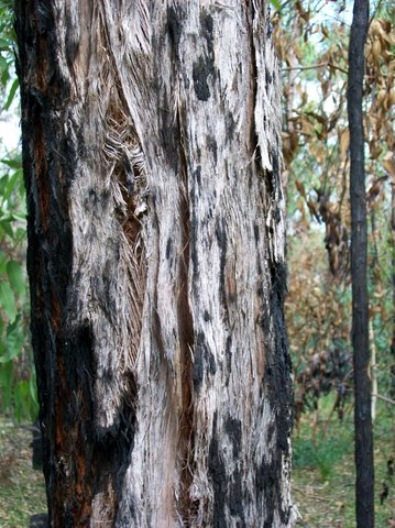 Eucalytpus oblonga, off Grosvenor Street, Ku-Ring-Gai Chase National Park, Australia